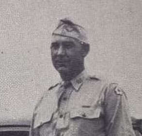 Colonel Franklin T. Matthias at Hanford Engineer Works in Hanford, Washington, 1942